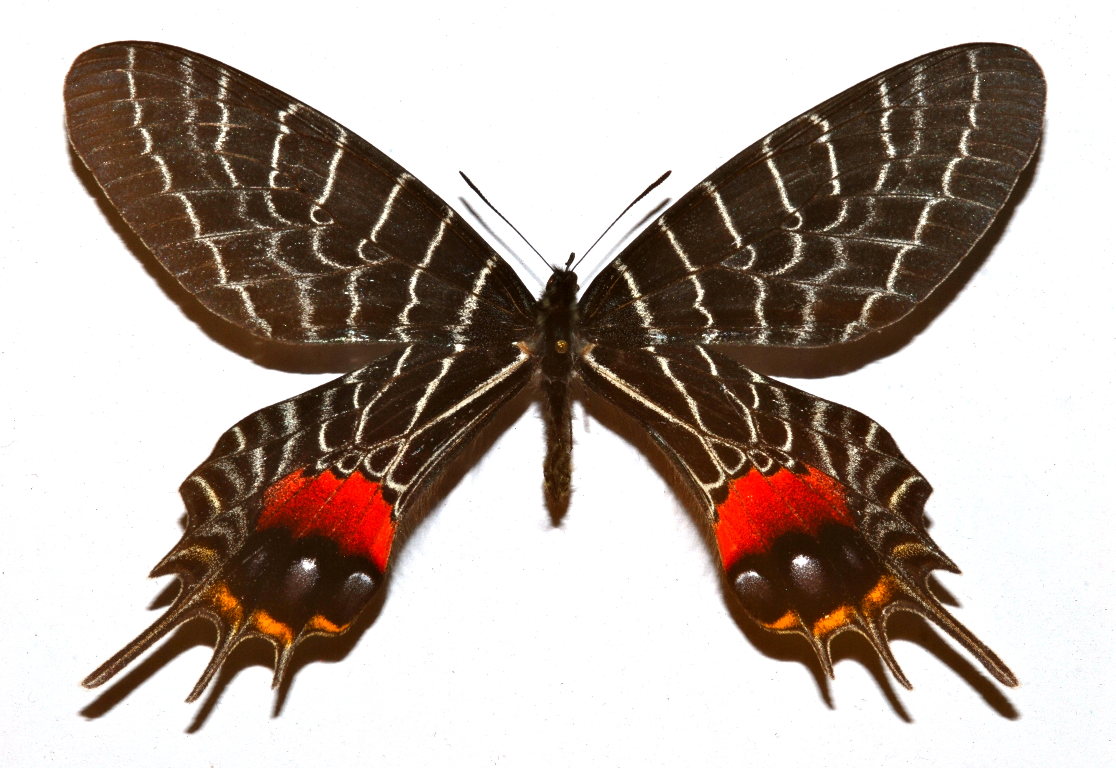 Bhutan Glory (Bhutanitis lidderdalii) Lijian, Yunnan, CHINA